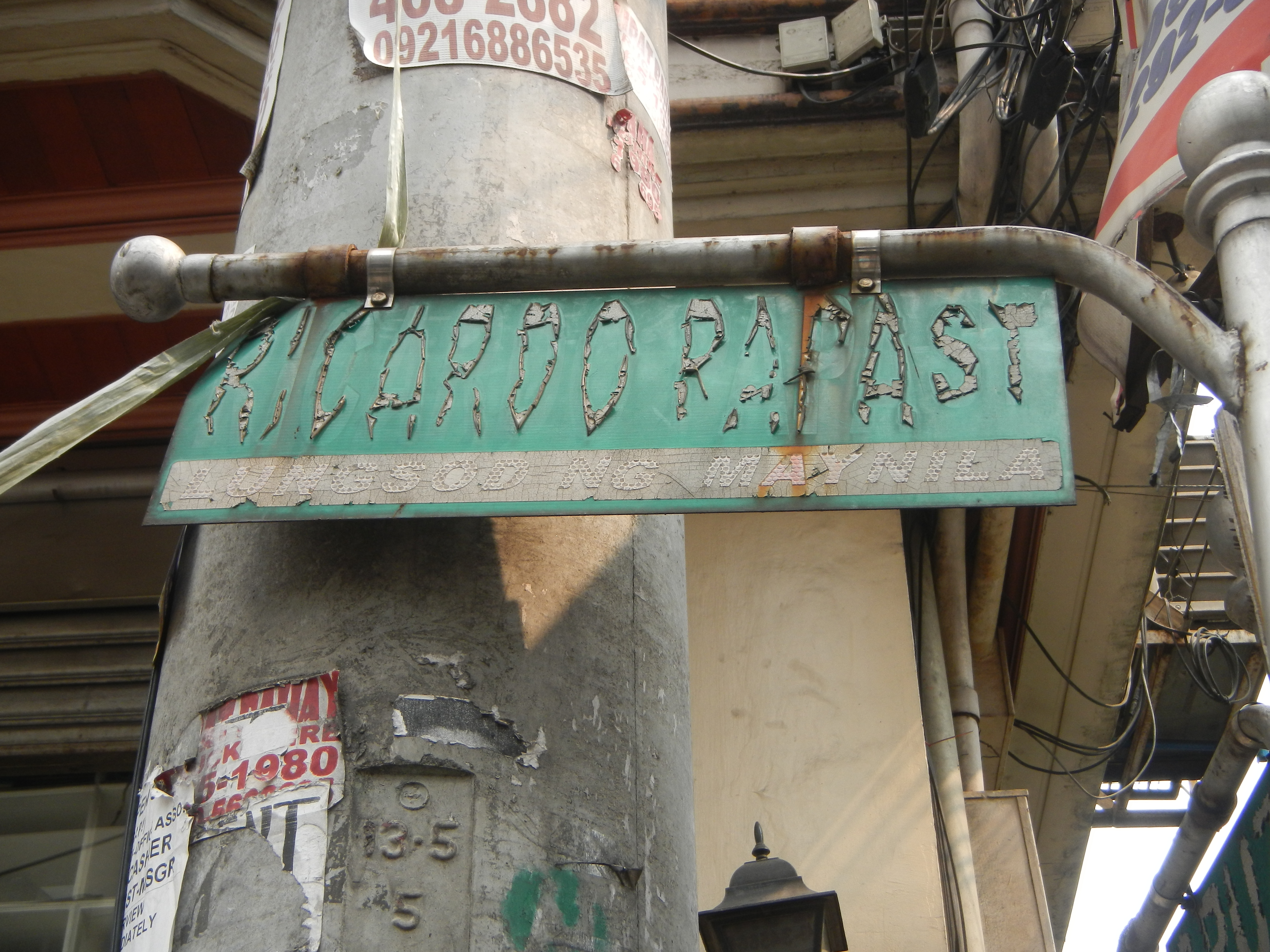 Caloocan City Rizal Avenue, Rizal Avenue Extension (Light Rail Transit Authority, Tondo, Manila) from Rizal Avenue Extension (Caloocan City) in Rizal Avenue Extension, Grace Park, from 1st Avenue, connected by the Ramon Papa Bridge under construction Rizal Avenue, Tondo, Manila, List of roads in Metro Manila, Manila Light Rail Transit System Line 1 R. Papa LRT Station Ramon Papa Street corner Limay Street to Hermosa Street corner Molave Street and Morong Street to Abad Santos Avenue in List of barangays of Metro Manila, Legislative districts of Manila Barangays 187, 188, 189, 190, 191, 192, 193, 194 and 195, Zone 17, District II, Obrero Tondo, Manila, City of Manila, Holy Cross Chapel surrounded by List of rivers and estuaries in Metro Manila Estero de Binondo one of six major tributaries of the Pasig River with pumps of Lift Stations of the Maynilad Water Services Canal de la Reina floodgate that end at Muelle de Binondo - the M. dela Industria Bridge, 15 Tons maximum, Pumping Stations, West Metro Manila Flood District, under MMDA).